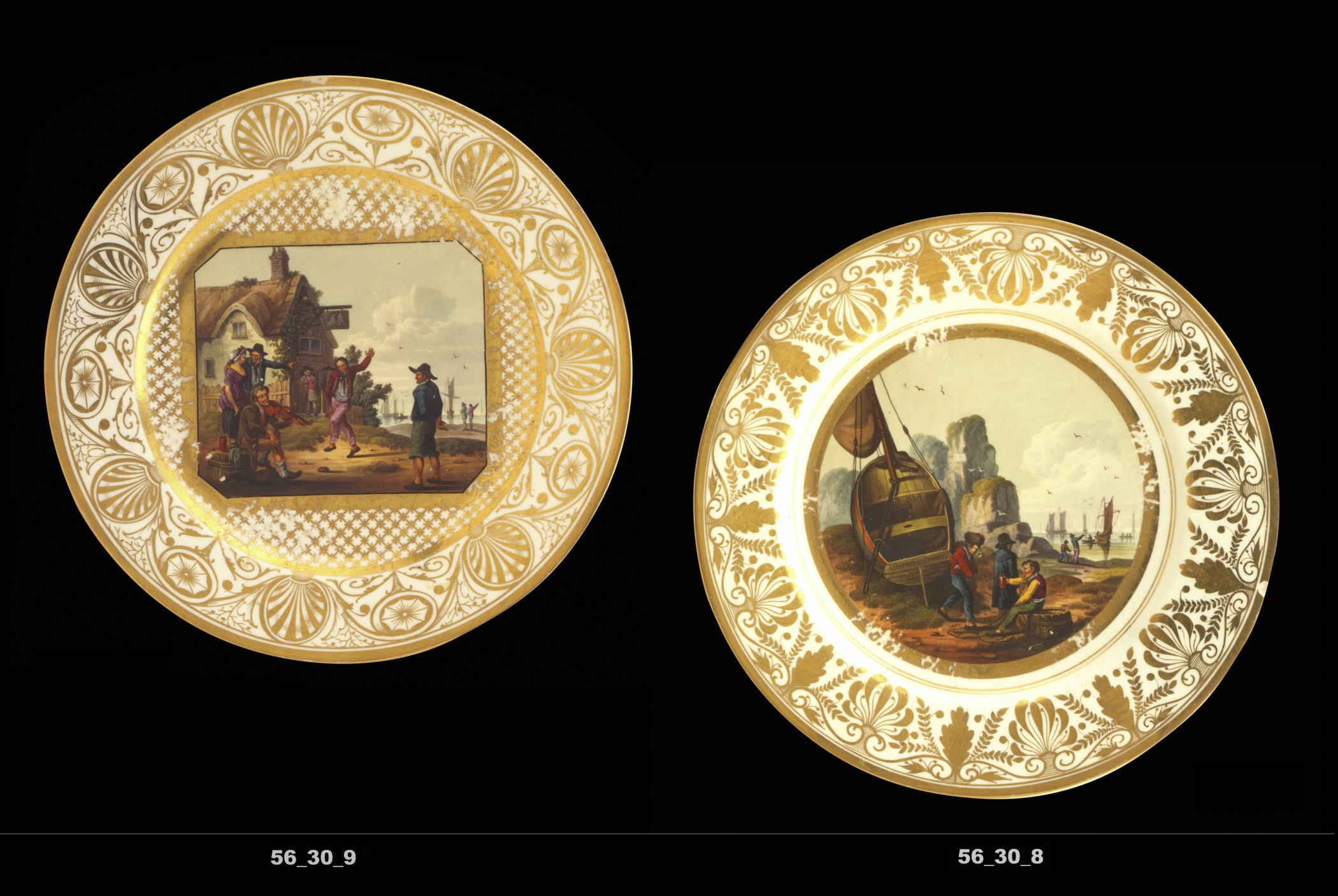 England, circa 1812 Furnishings; Serviceware Porcelain Gift of Mr. Walter T. Wells (56.30.8) Decorative Arts and Design